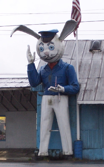 Reedville Harvey Rabbit